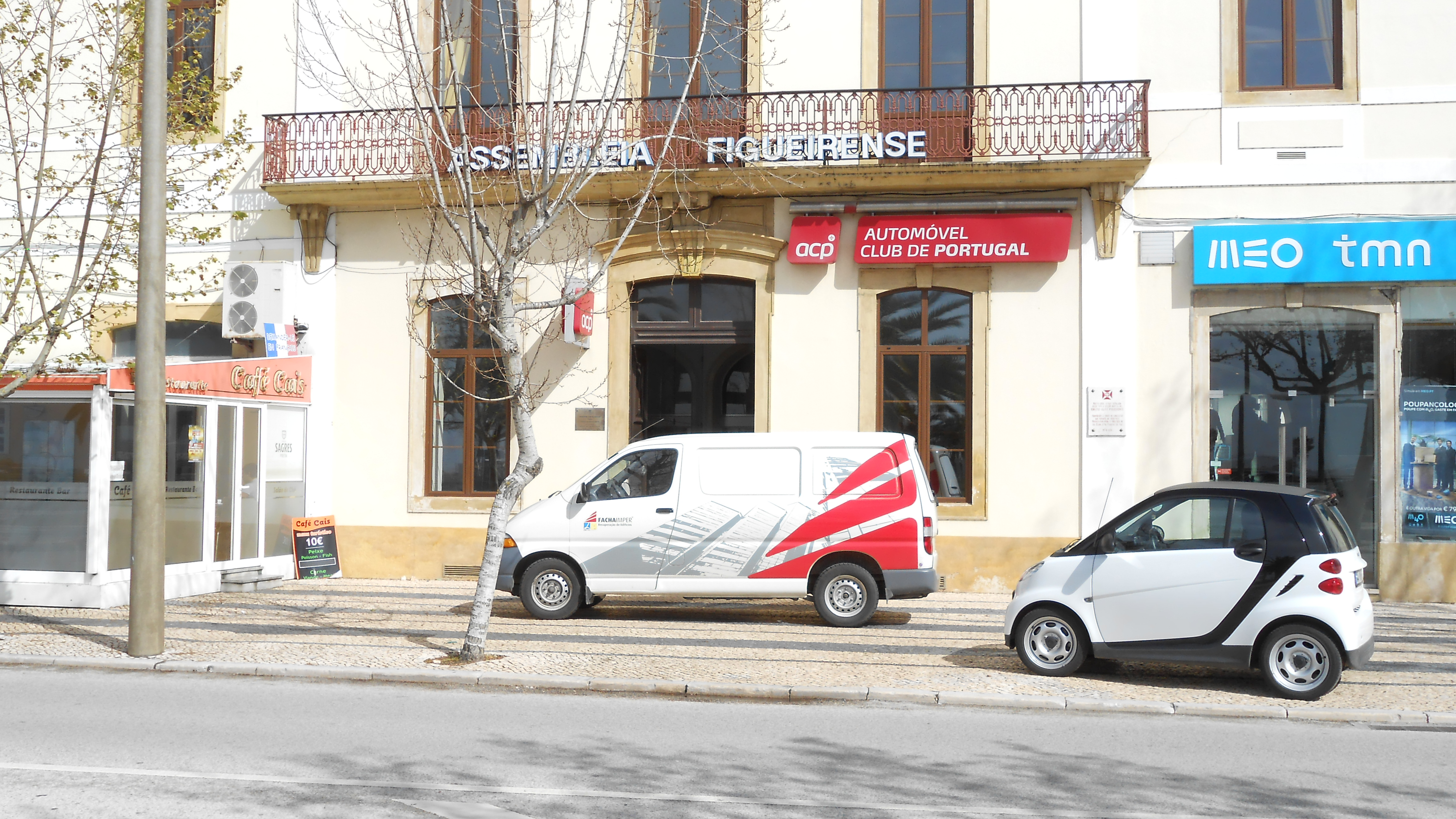 ACP-office in Figueira da Foz